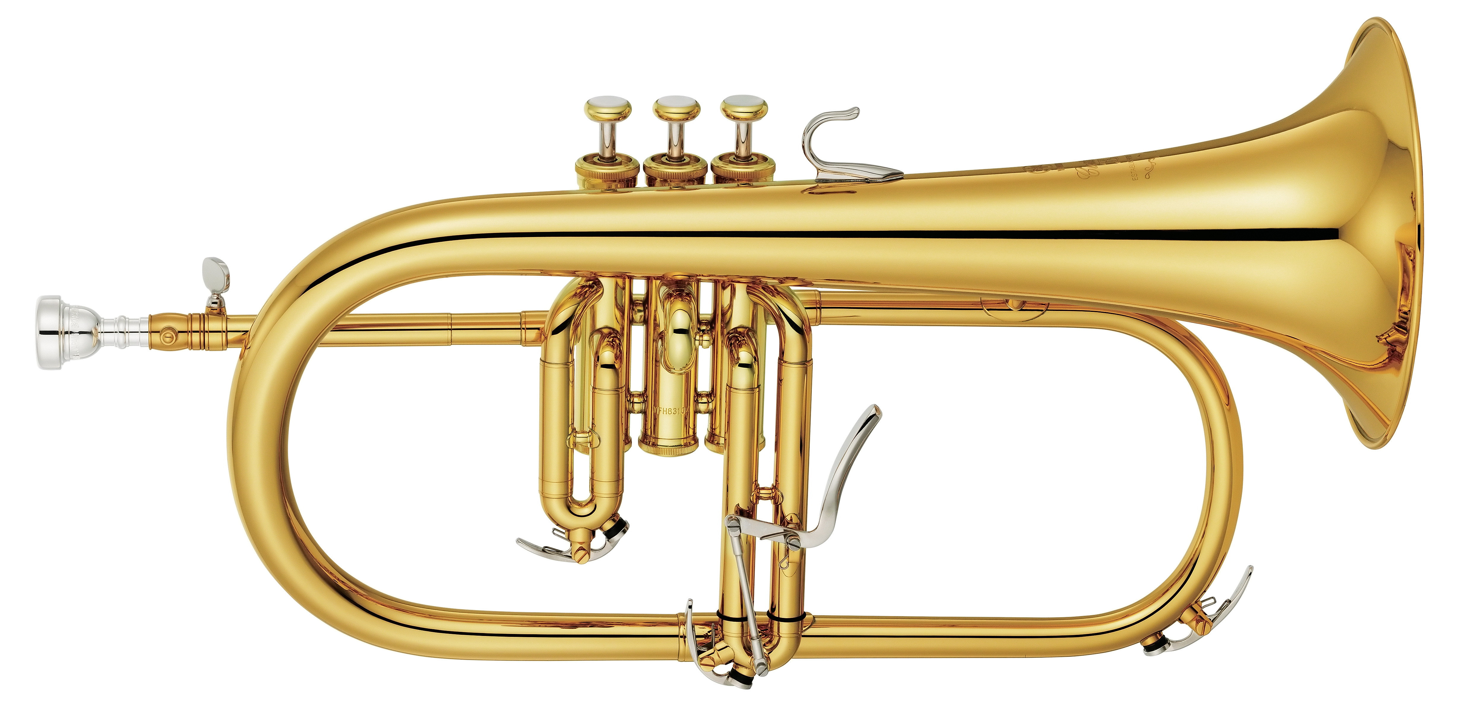 Yamaha Flugelhorn, model YFH-8310Z. In Bb, yellow brass, three pistons, trigger .